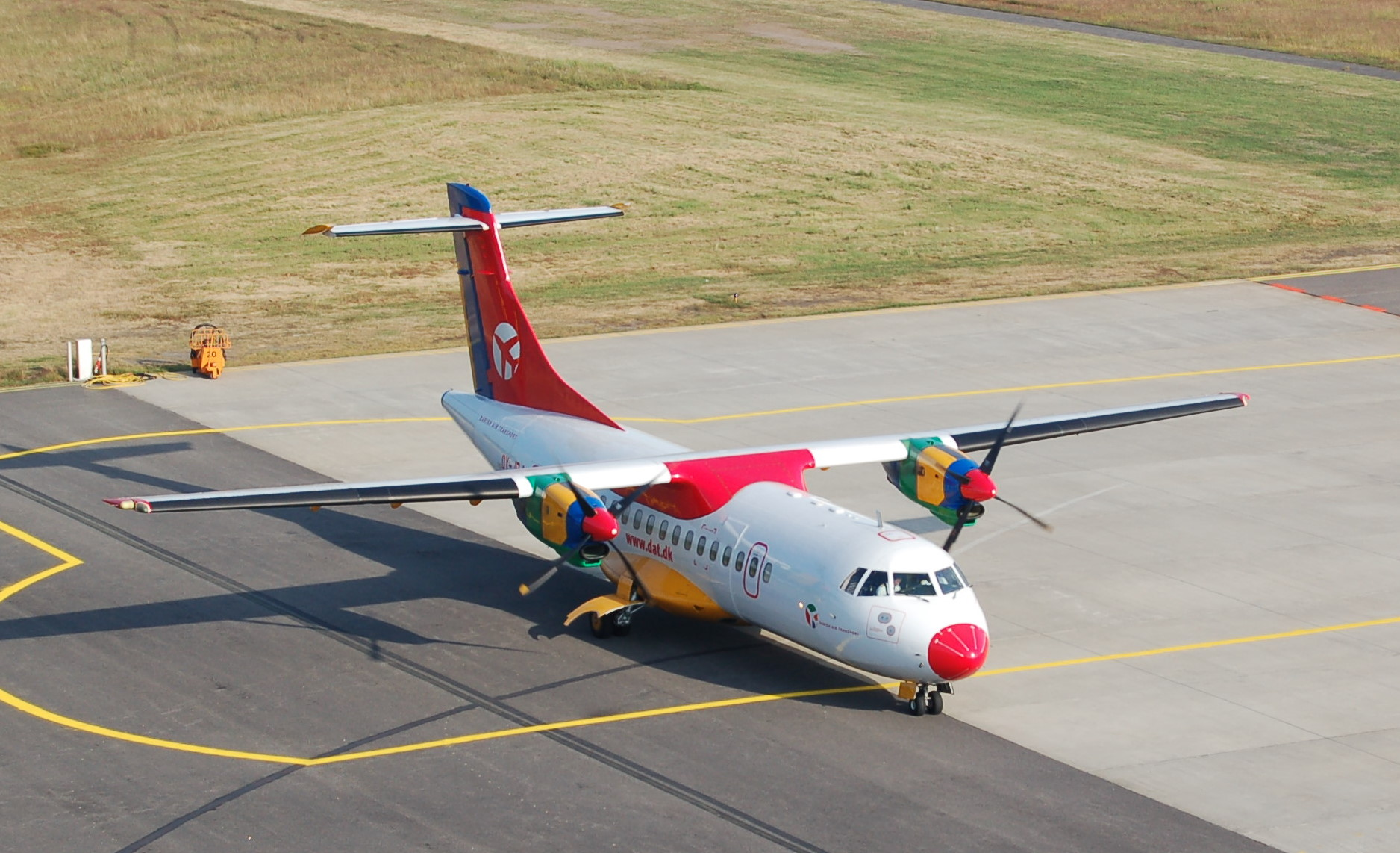 Photo of DAT OY-JRJ (ATR-42-320) at apron on EKRN (Bornholm_airport)